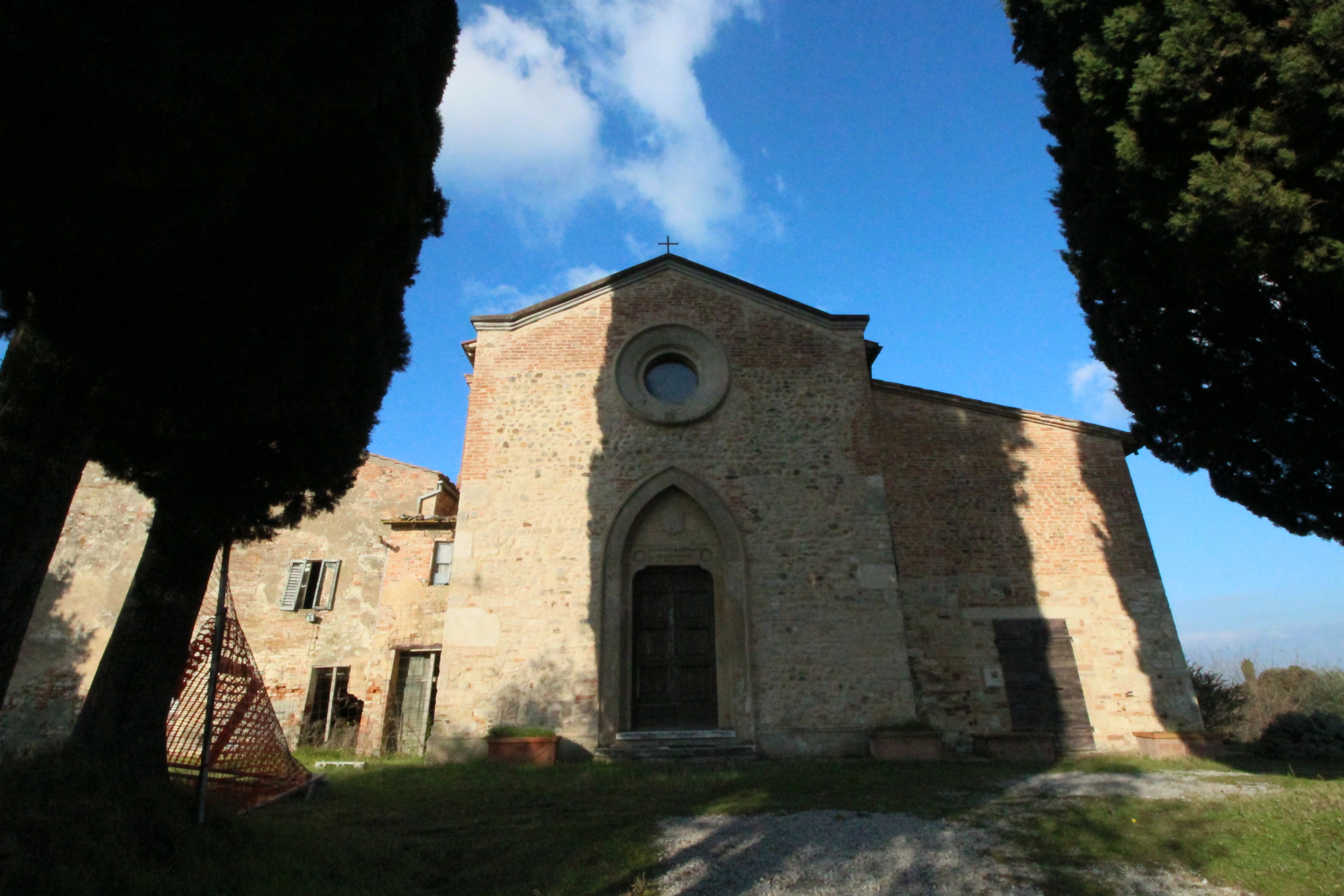 Church Ruin Santa Maria a Torre a Castello, in Torre a Castello, hamlet of Asciano, Province of Siena, Tuscany, Italy